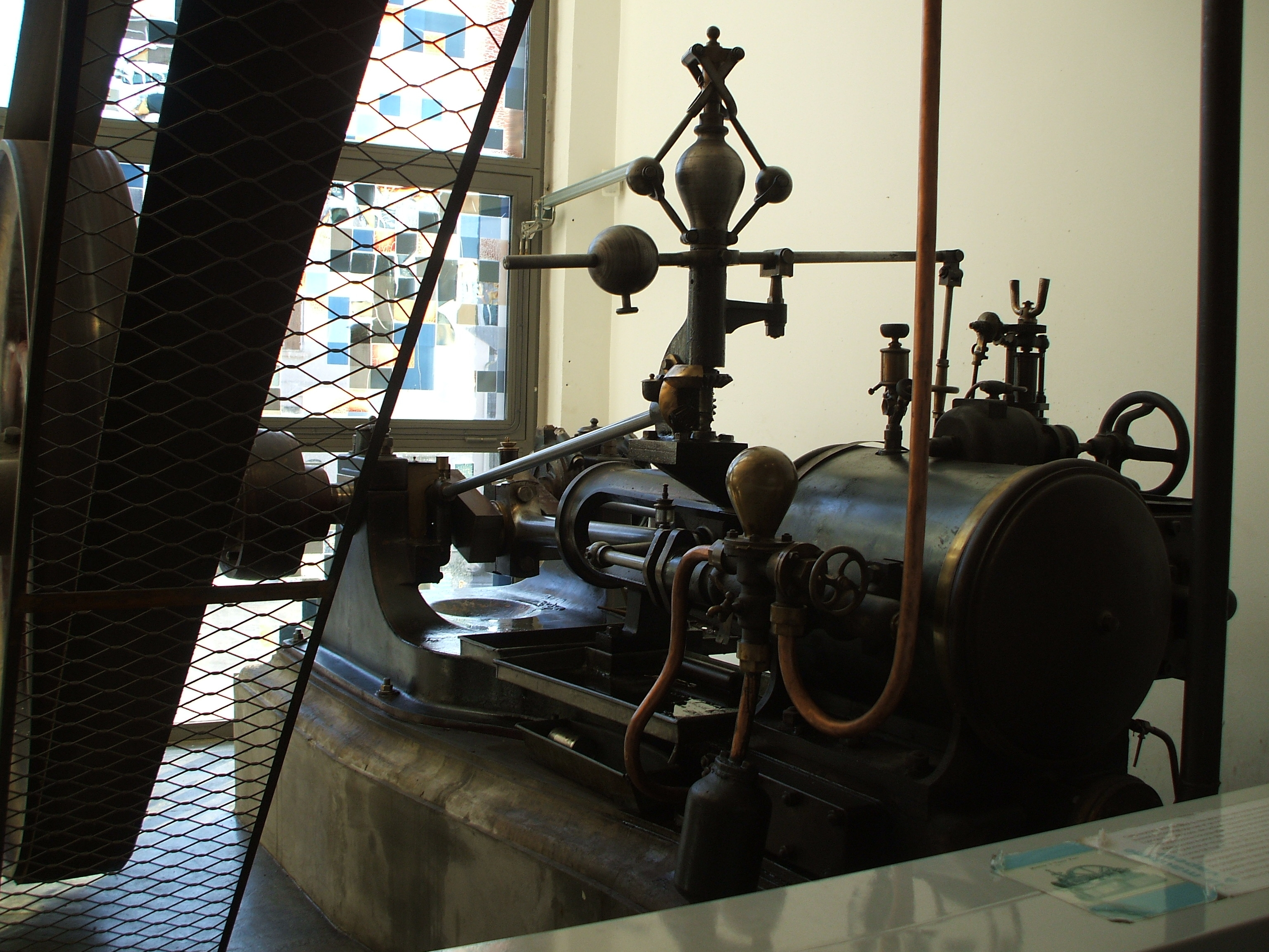 Steam engine nacre museum of Méru Oise France Joconde database: entry M1117000556